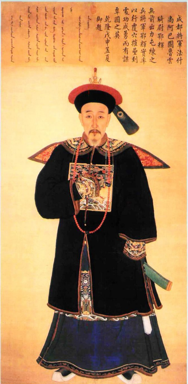 chin. E'hui (鄂辉 e hui), an officer of the Qing Army during Qianlong's era.